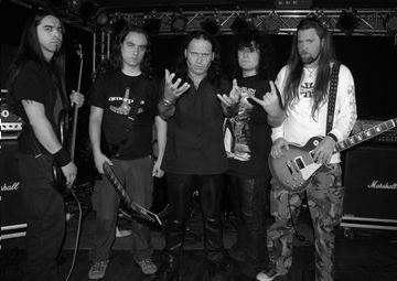 This is a picture that i took in Poland 2007 backstage of the band Blaze Bayley